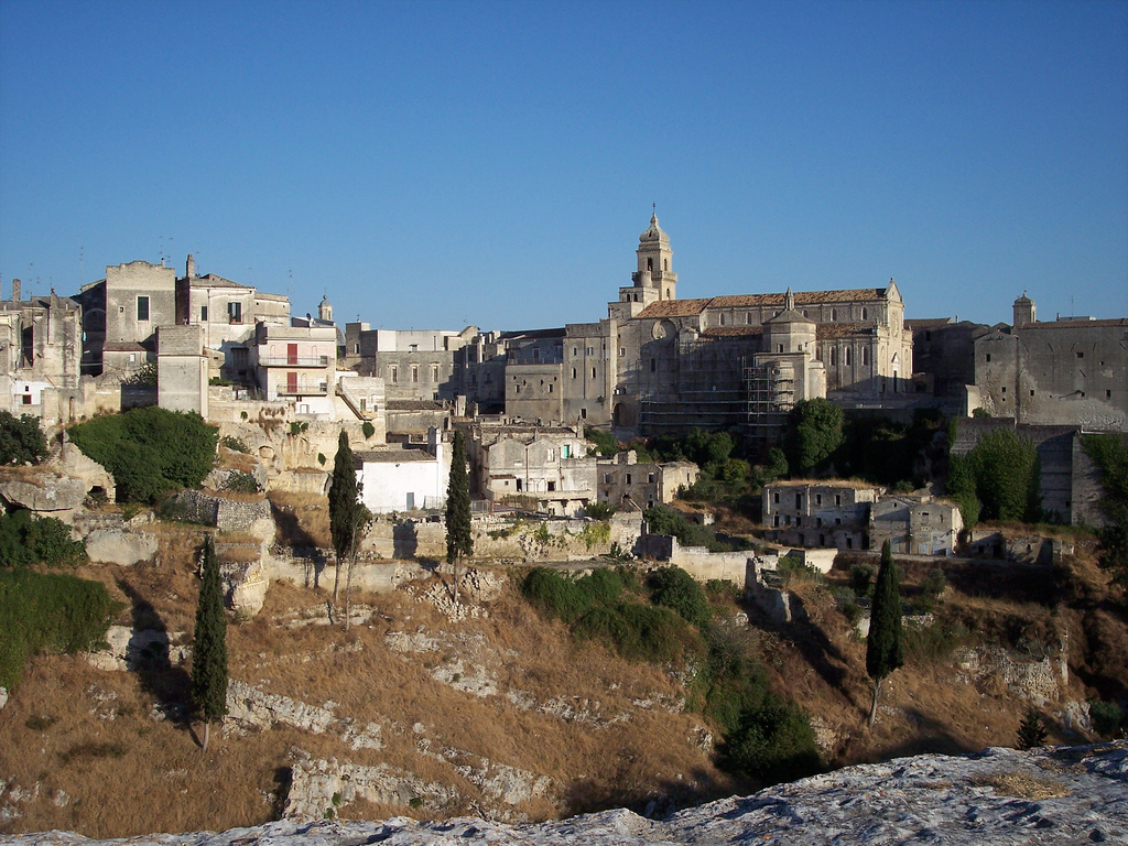 The commune of Gravina in the Italian region of Puglia/Apulia